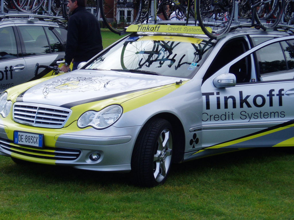 Tinkoff Credit Systems follow car